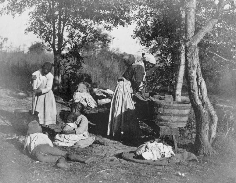 Washing day on the plantage